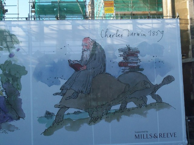 Charles Darwin by Quentin Blake. This cartoon by Quentin Blake adorns the front wall of Kings College, hiding the building works. For position, see 1585253.